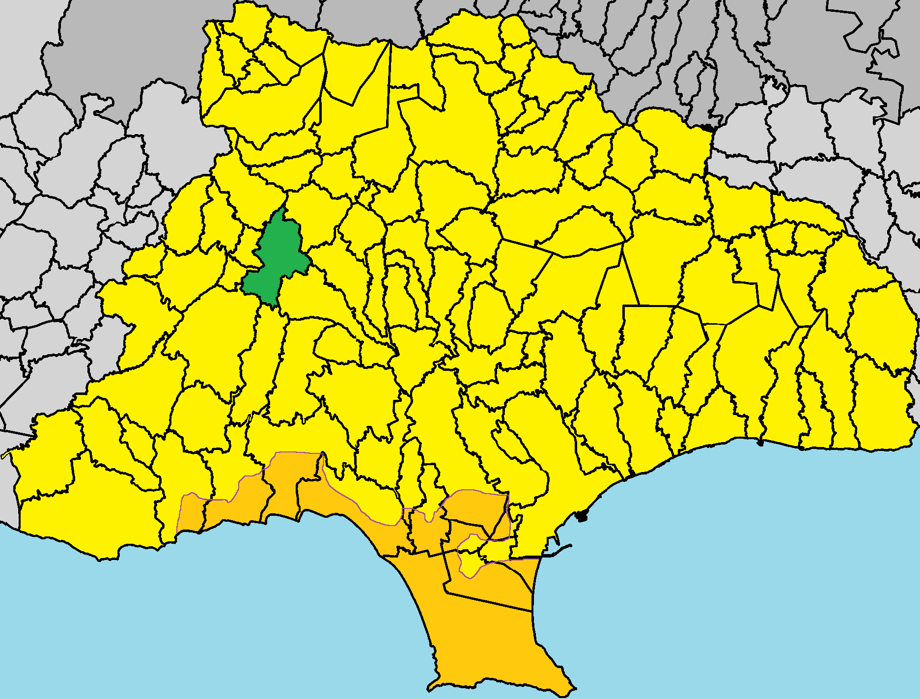 Vouni in Limassol District.